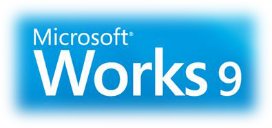 Microsoft Works 9 Logo